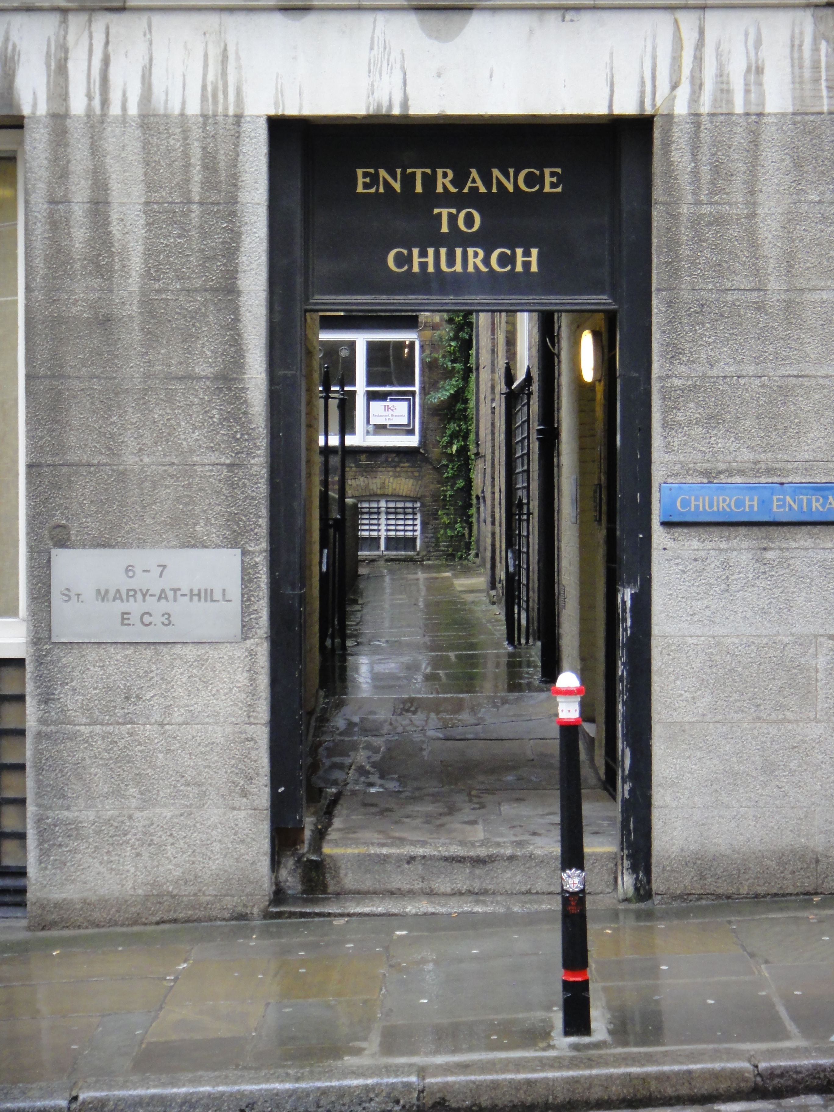 St-Mary-at-Hill. Entrance to the church.